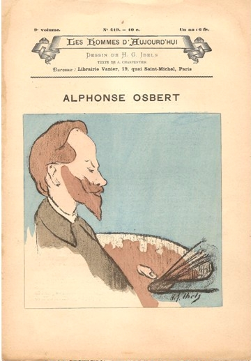 Alphonse Osbert - Les Hommes d'aujourd'hui N°419